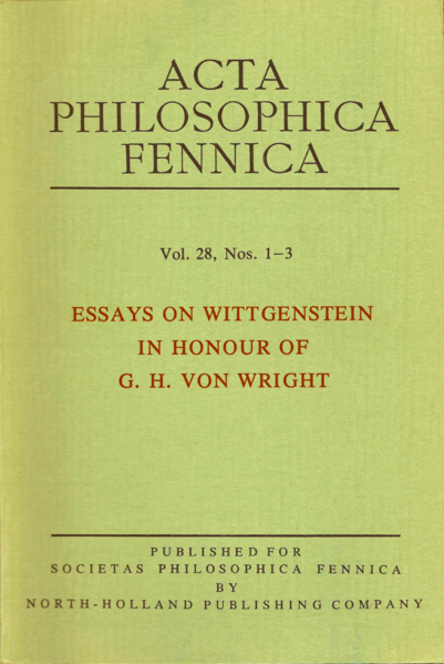 A cover of the journal Acta Philosophica Fennica